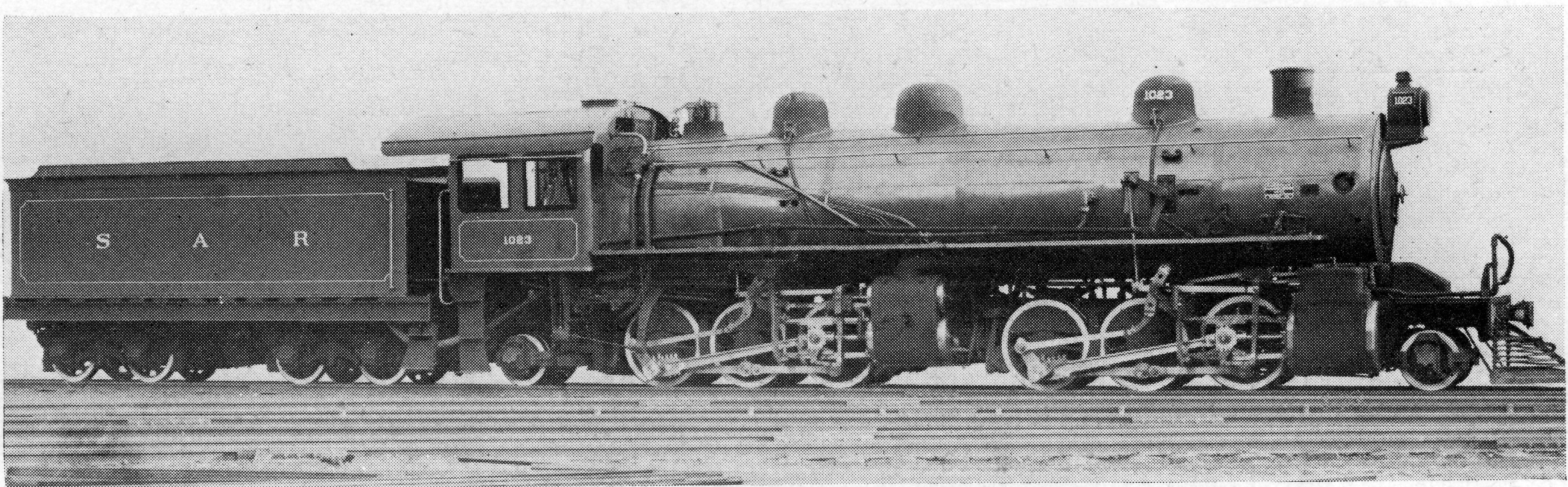 SAR Class MF 1627 (2-6-6-2), ex CSAR 1023